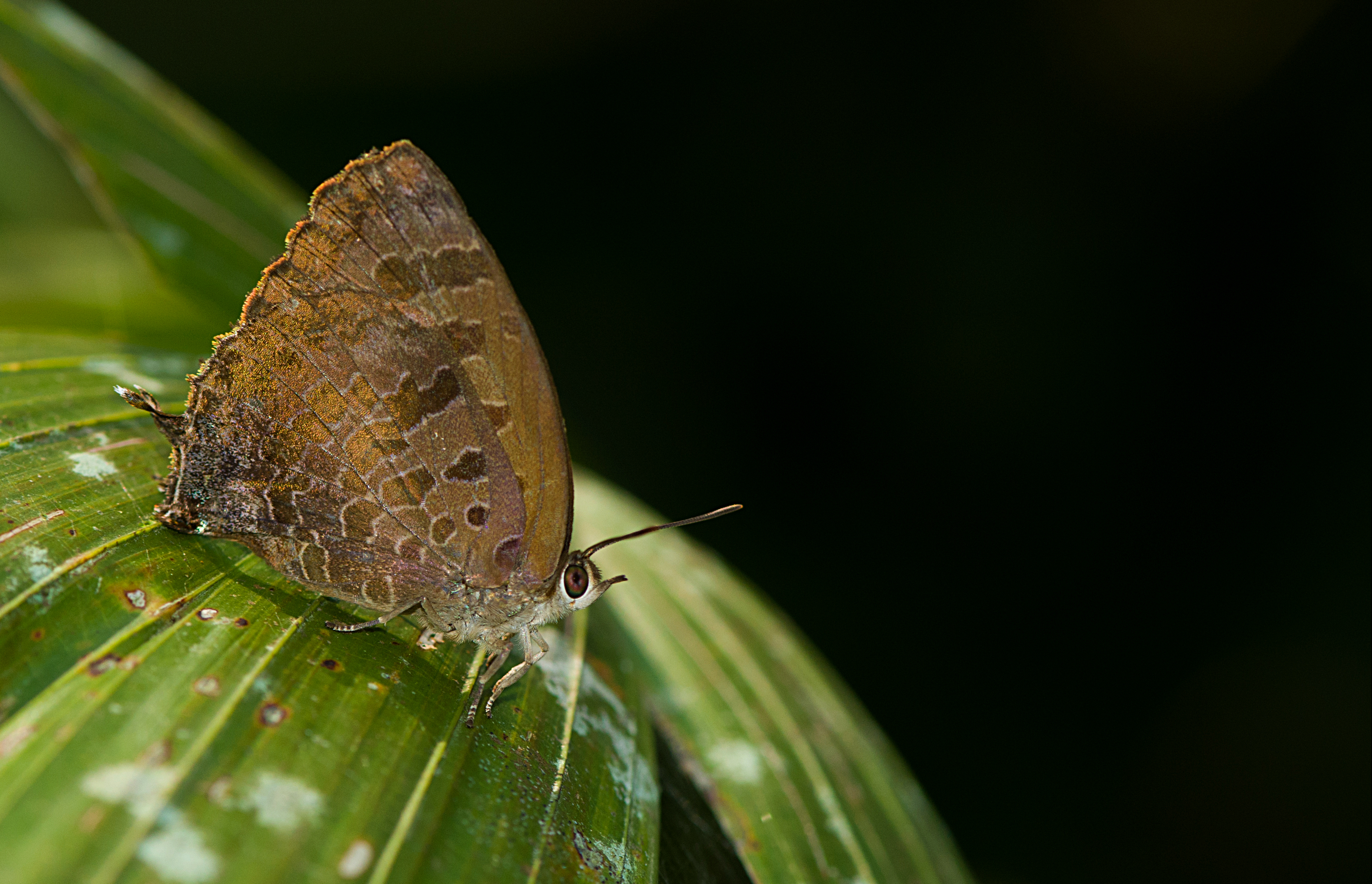 Butterfly collections from Uajith